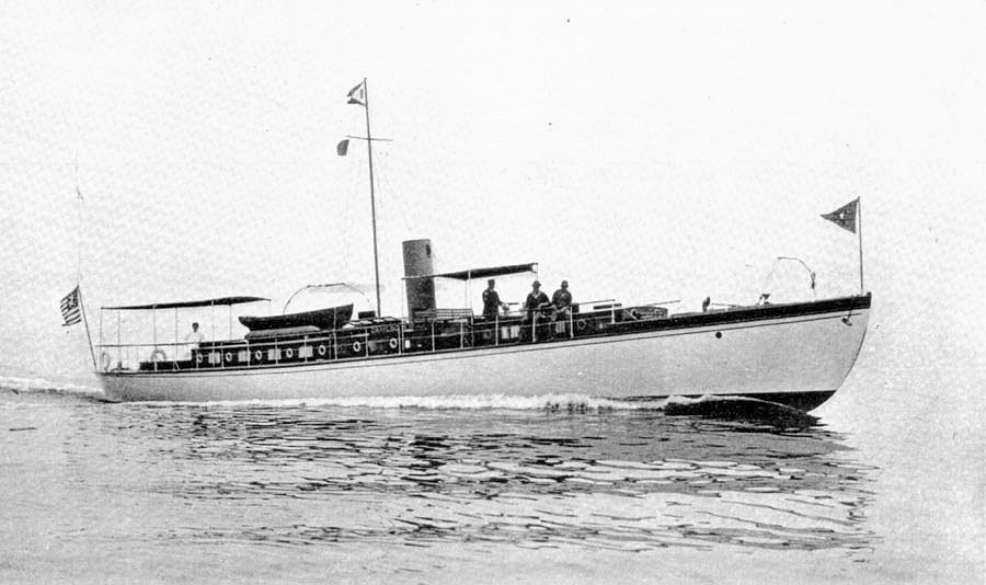 The yacht Grayling, prior to her United States Navy service as patrol vessel